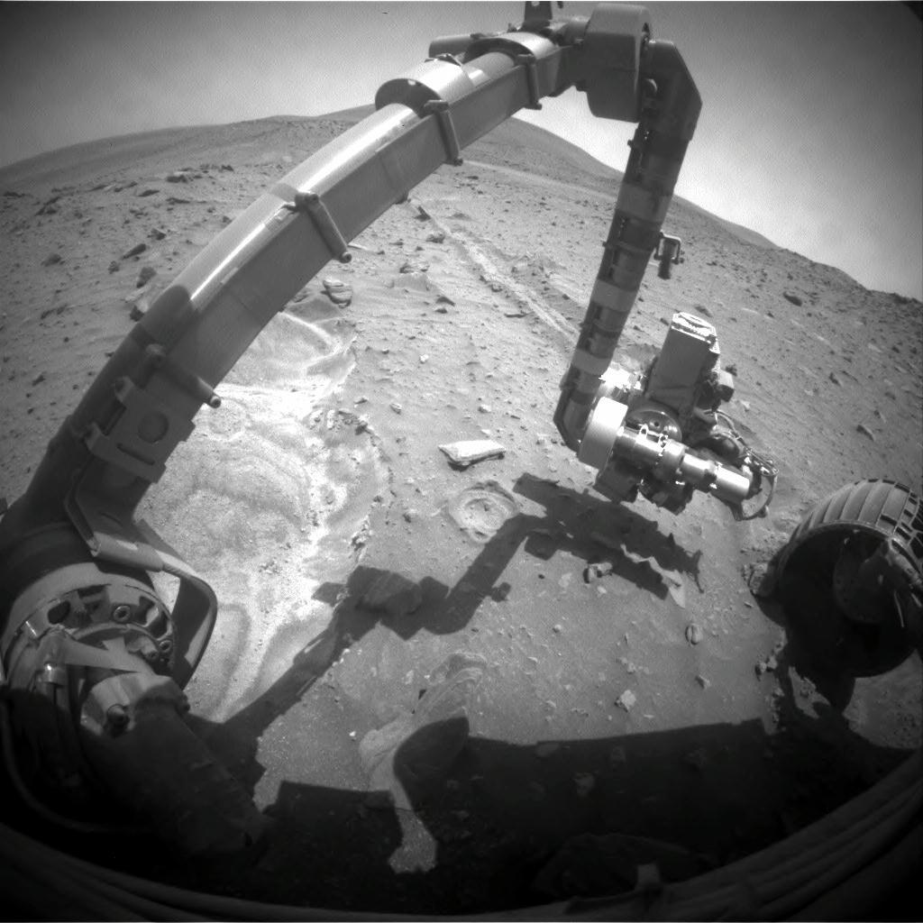 NASA's Mars Exploration Rover Spirit recorded this forward view of its arm and surroundings. Bright soil in the left half of the image is loose, fluffy material churned by the rover's left-front wheel as Spirit, driving backwards, approached its current position in April 2009 and the wheel broke through a darker, crusty surface. Spirit used its front hazard-avoidance camera to take this image. The turret of tools at the end of the rover's robotic arm is positioned with the Moessbauer spectrometer up and the rock abrasion tool extending toward the right. Spirit's right-front wheel, visible in this image, has not worked since 2006. It is the least-embedded of the rover's six wheels at the current location, called "Troy."